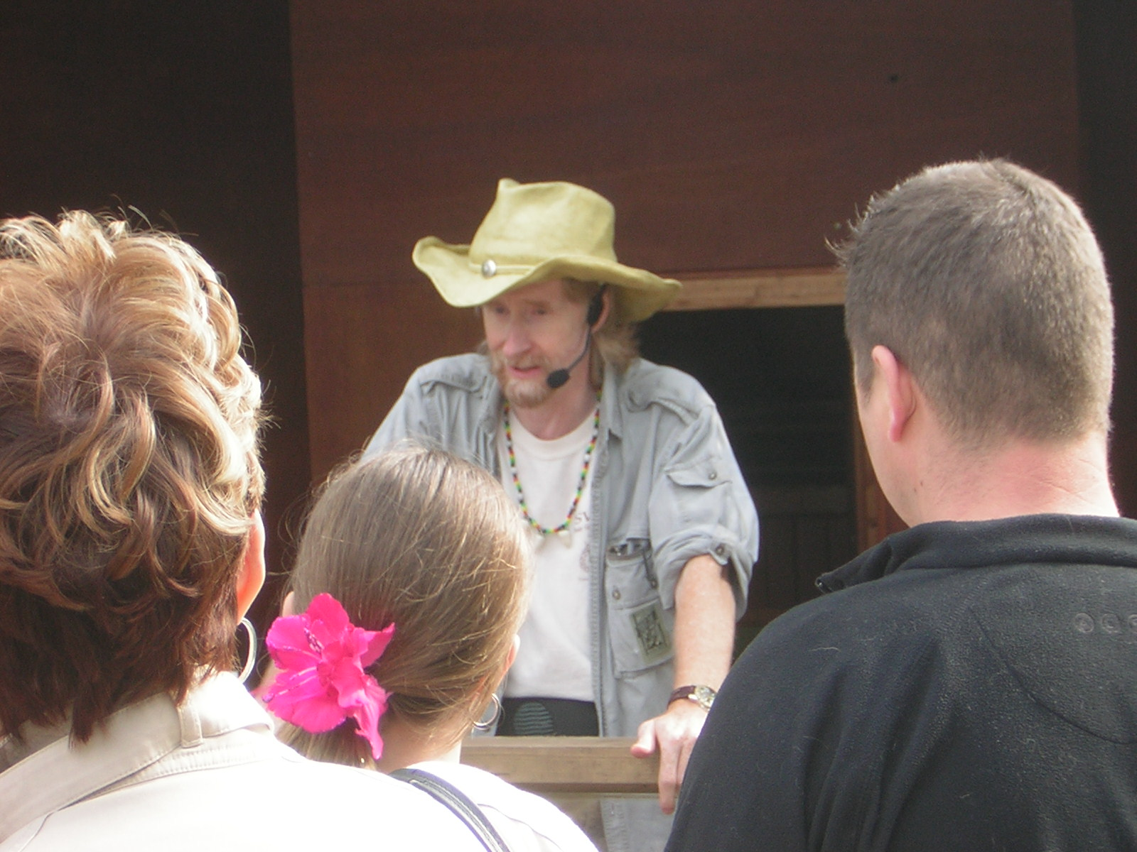 Mark O'Shea at the West Midland Safari Park 3 April 2005.